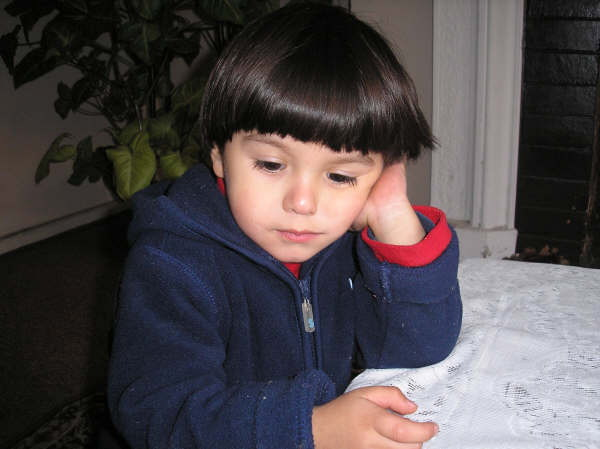 a pensive male toddler, recent picture, own work